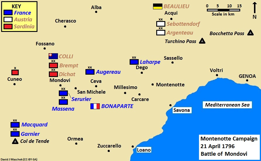 Montenotte Campaign Situation Map: 19-21 April 1796